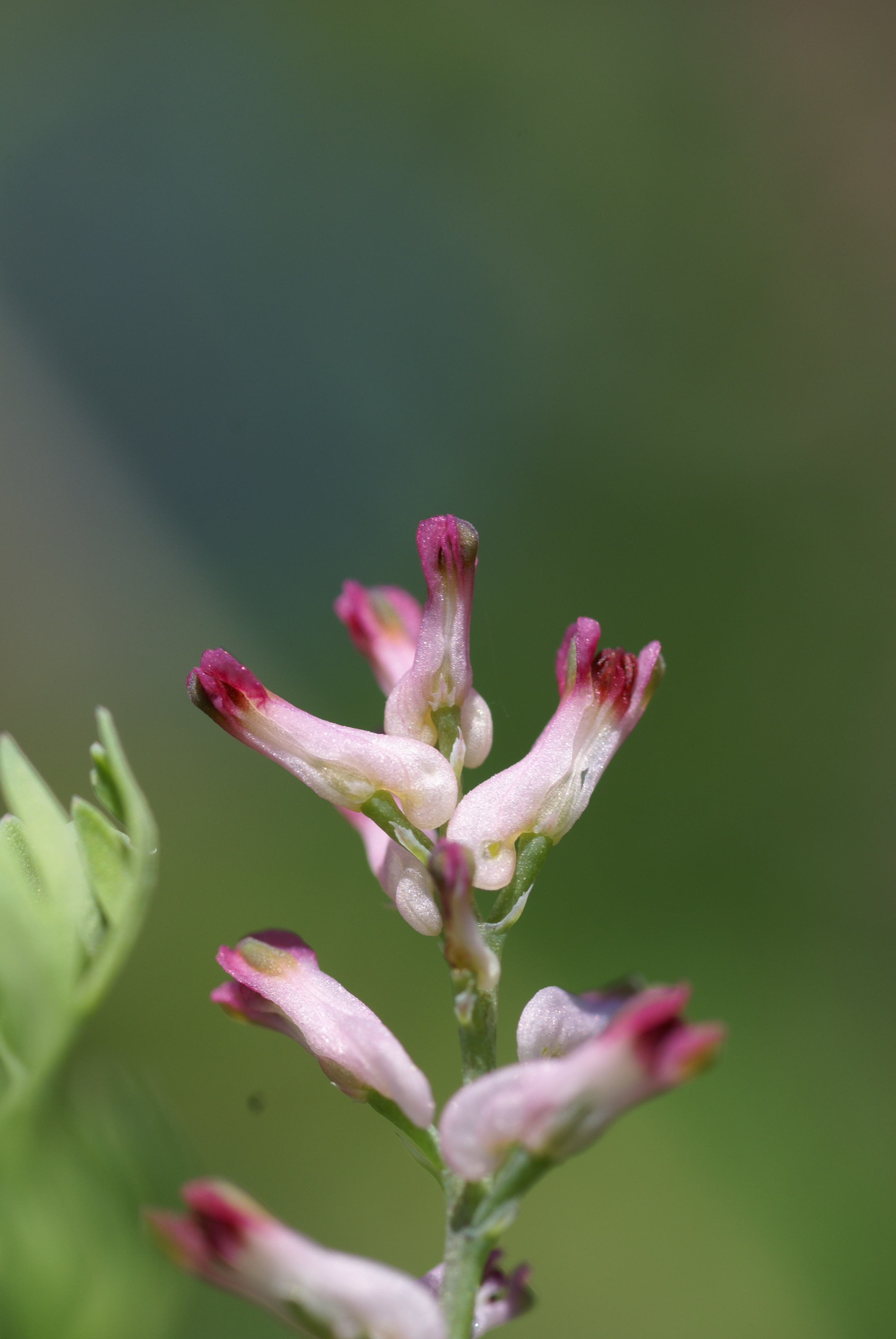 Inflorescence of plant species Fumaria vaillantii found a few hundred meters north of Skokloster castle in Sweden.